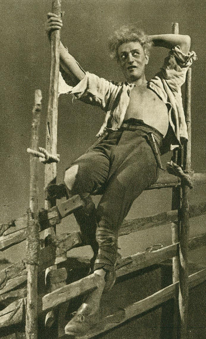 Gösta Ekman Sr. in the title role in Ibsen's drama Peer Gynt.